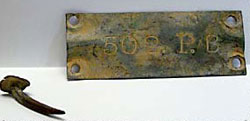 Zinc plate attached to a milepost during the survey of the Queensland-South Australia border